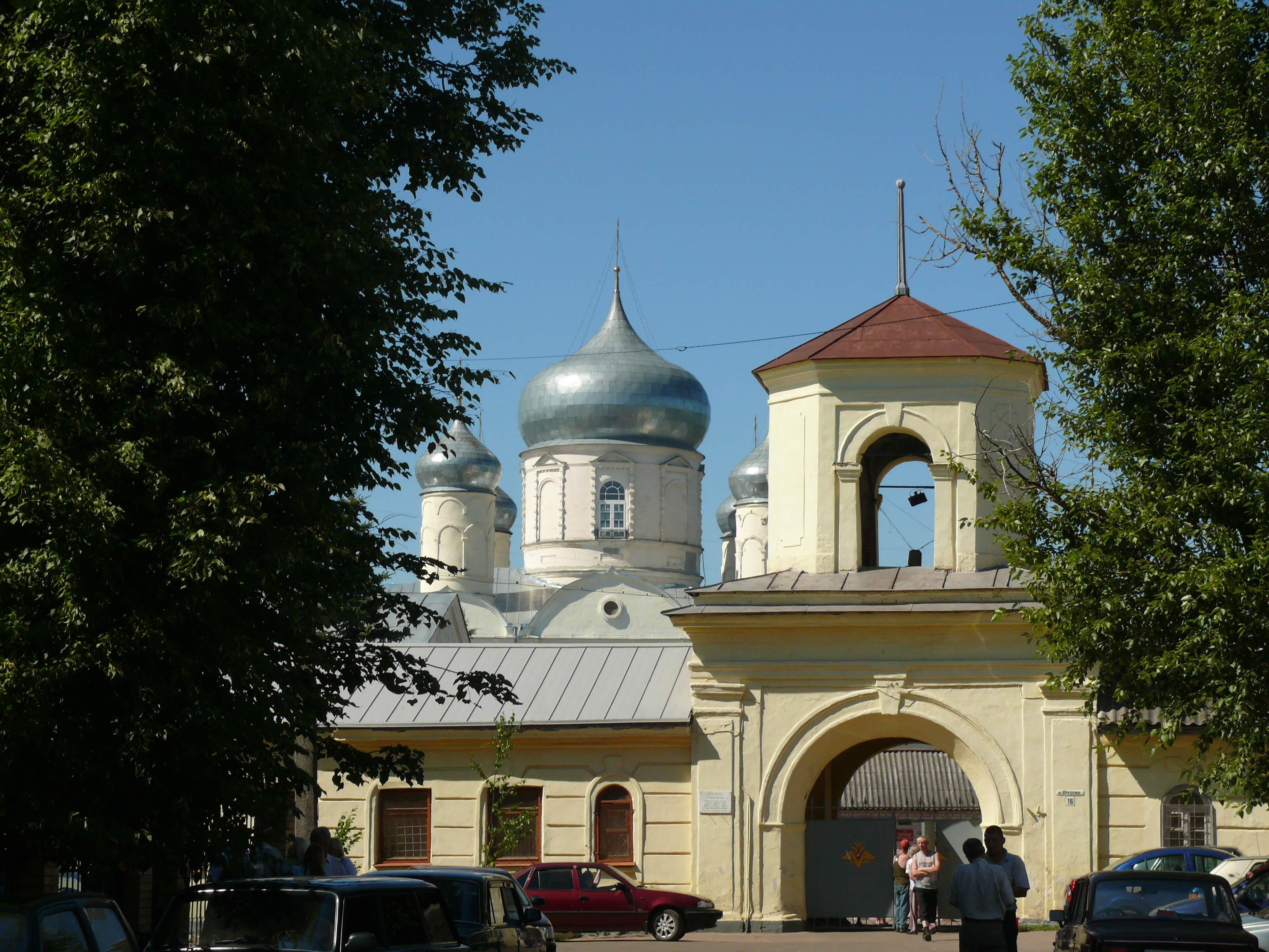 Enter in Zverin monastery. Veliky Novgorod. Russia